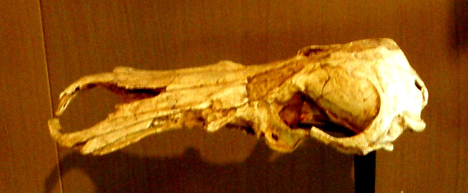 Skull of Obdurodon dicksoni, a fossil platypus on display at the "American Museum of Natural History" in New York